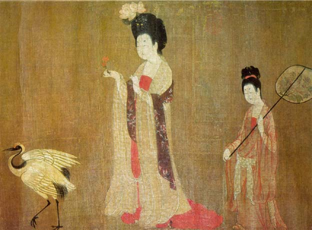 Beauties Wearing Flowers (46x180 cm)